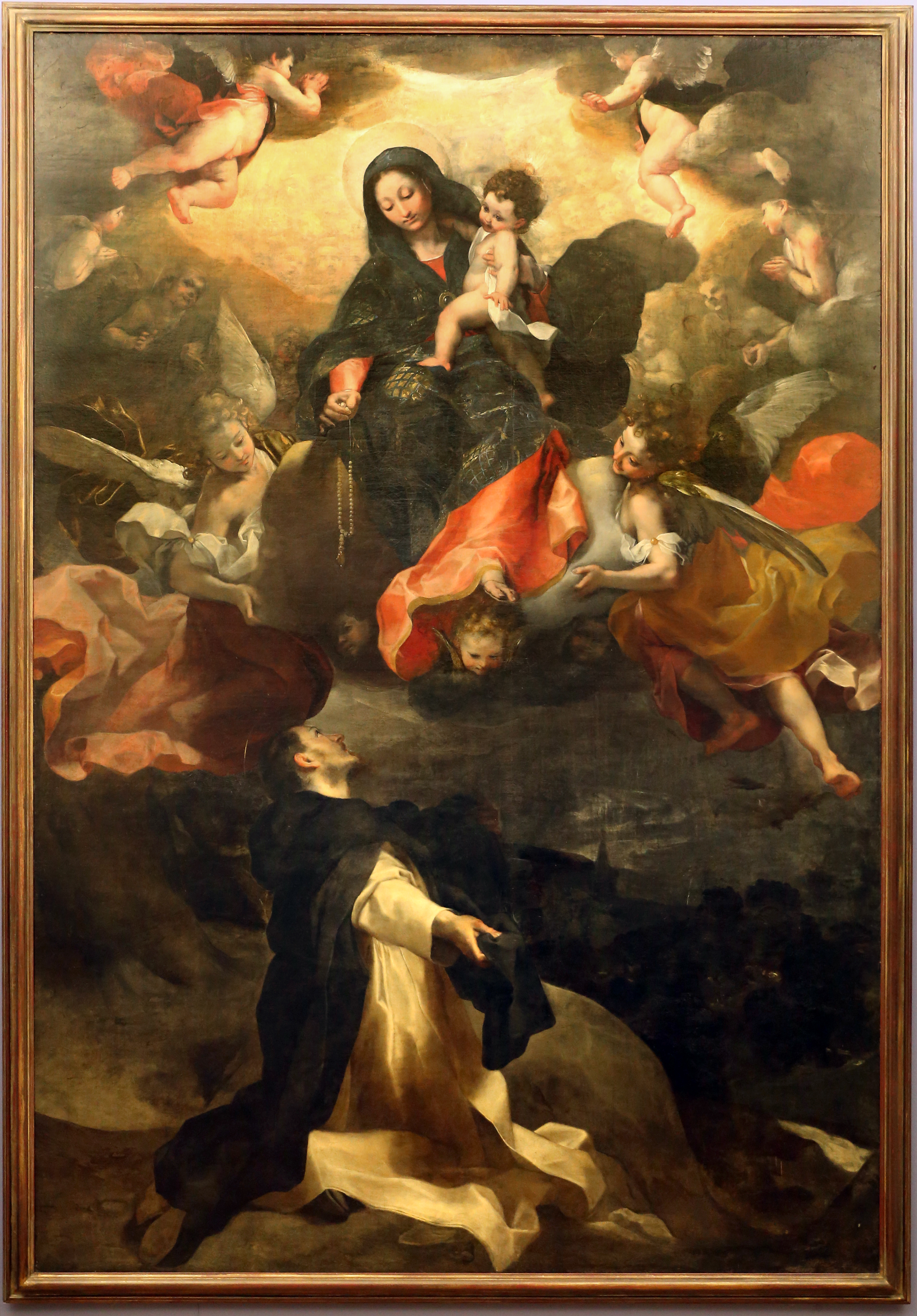 Pinacoteca Diocesana (Senigallia)